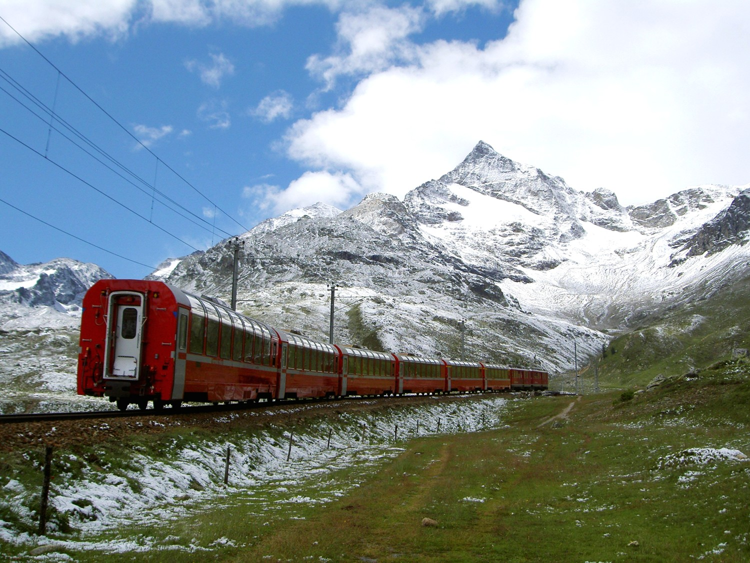 Bernina Express on the ascent of Berninapass, Piz d'Arlas (3375 m) in the background